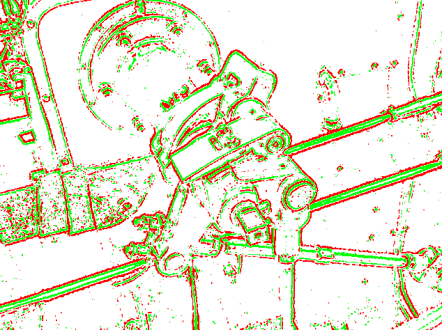 An example of edge detection using an emulation of retinal receptive fields. This is what the output of the optic nerve would look like (as a very rough approximation: the fovea is an almost 1:1 high definition visual area and the receptive fields increase in size from the centre of the retina to the peripheral). This image was processed in Java using a 52-pixel template (contact me for source code). Both types (on centre and off centre) cells are shown in different colours. Here is the original preprocessed image.